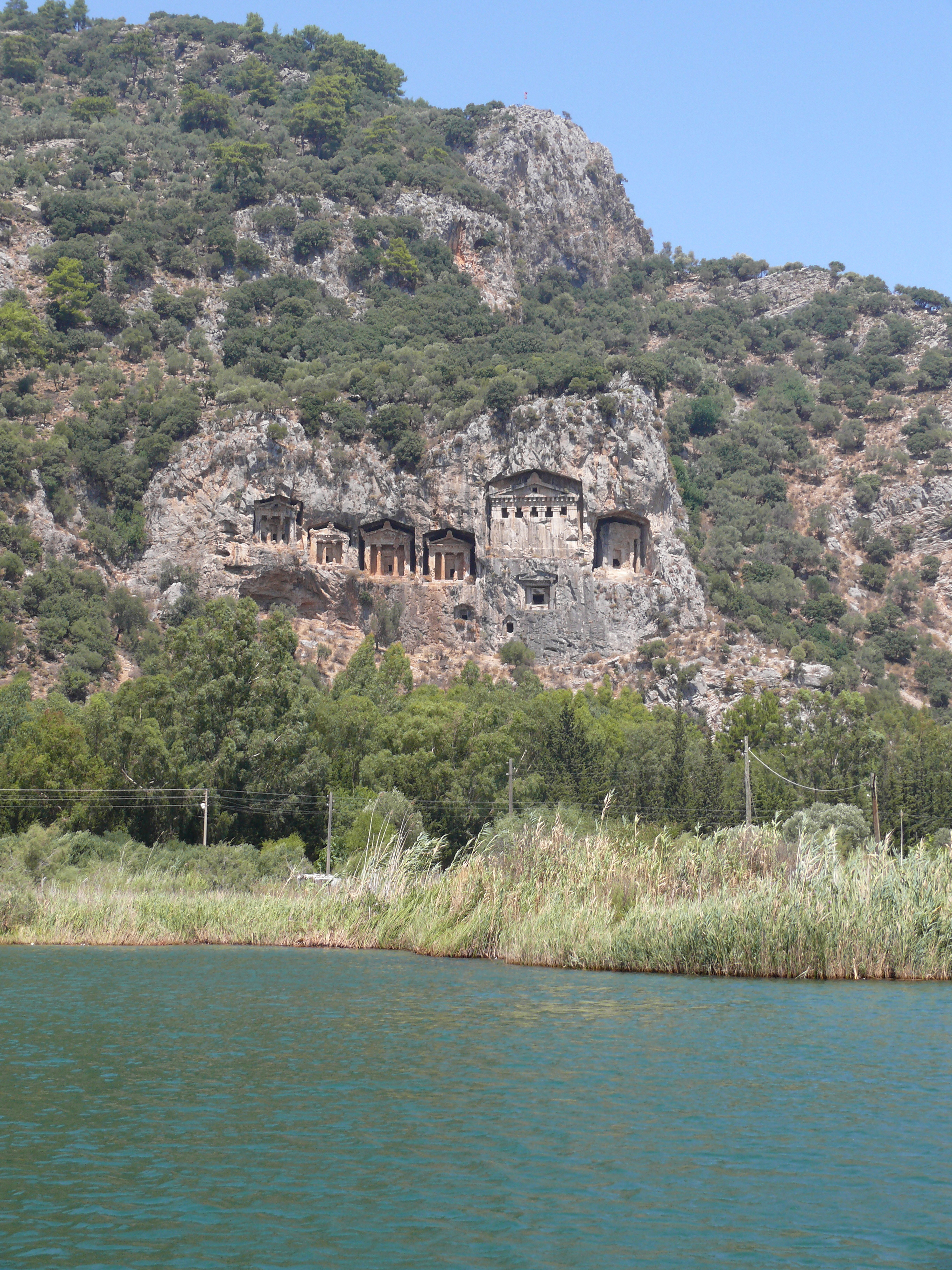 Lycia is a mountainous and densely forested region along the coast of southwestern Turkey. Many relics of the Lycians remain visible today, especially their distinctive rock-cut tombs in the sides of cliffs in the region.